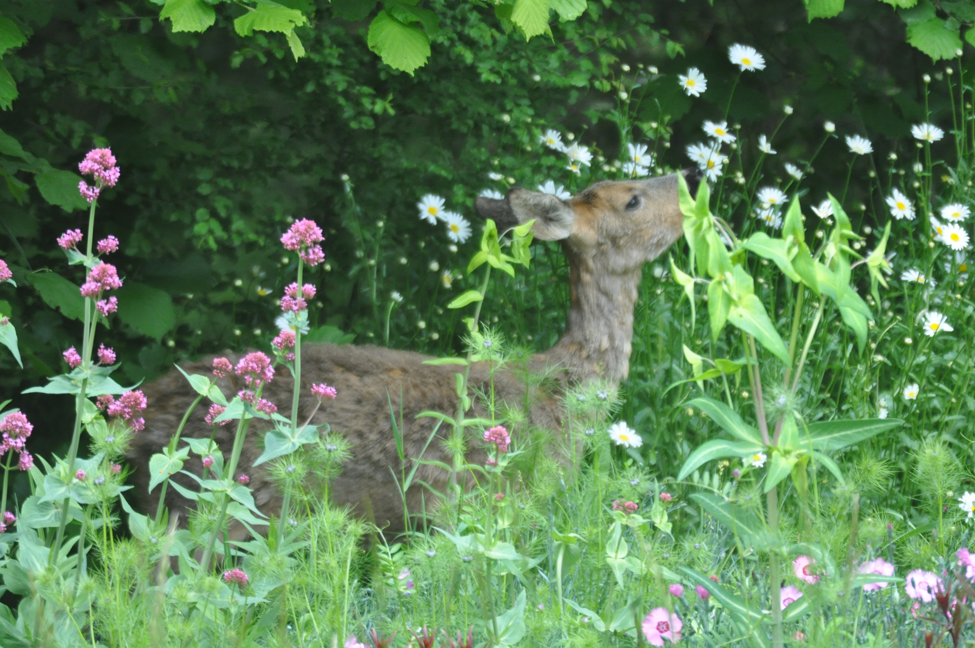 Chevreuil des Landes